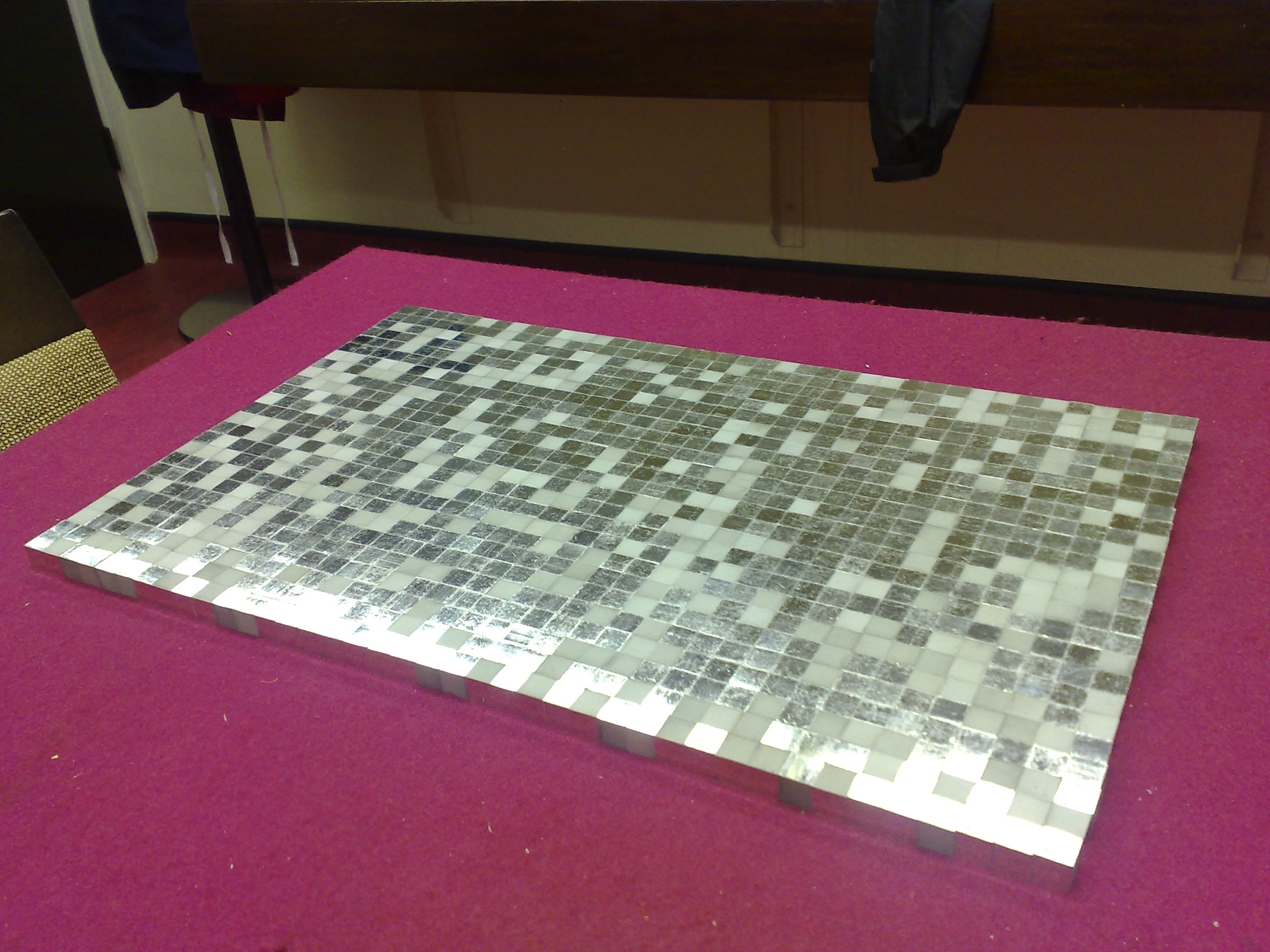 One litre of 99.9% pure platinum, 40x25, manufactured into 1cc cubes to 5 micron accuracy